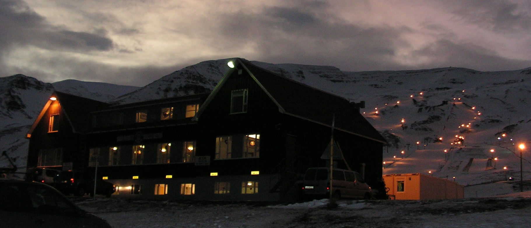 Hlíðarfjall, ski area outside Akureyri Iceland